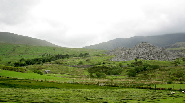 Chwarel Glanrafon Quarry